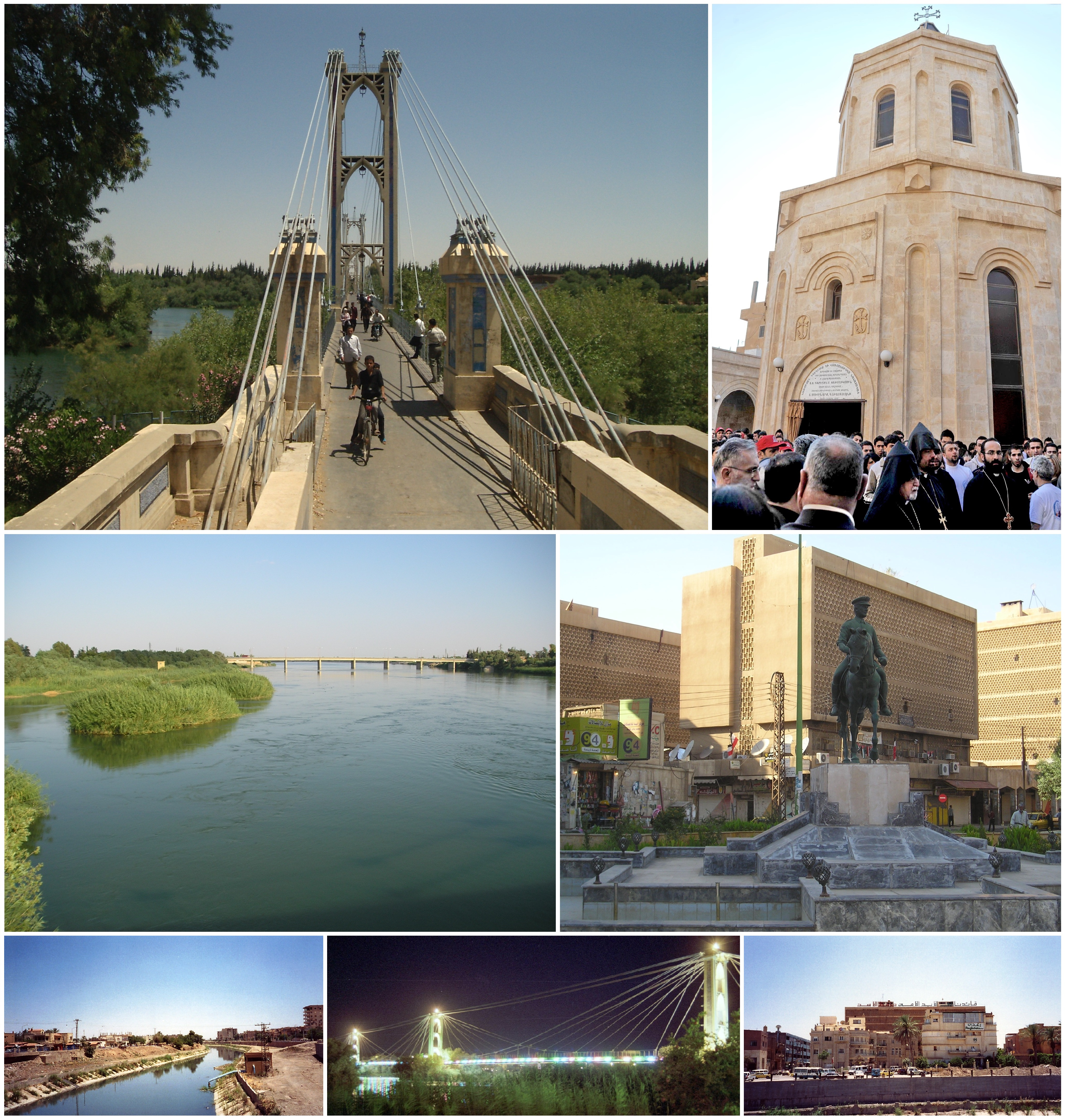 Deir ez-Zor collection, Syria